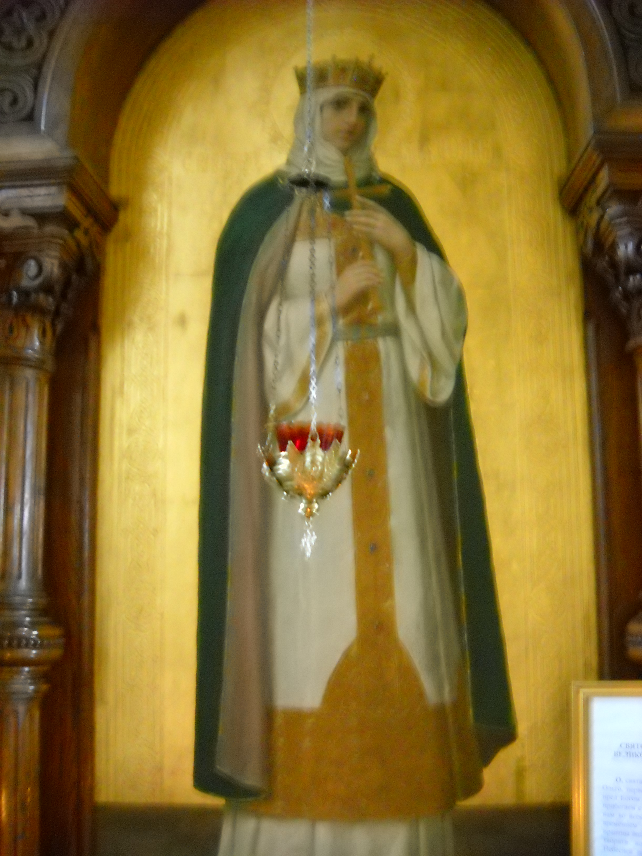 St. Olga icon in Orthodox Church of Revelation of Mother of God in Vilnius.